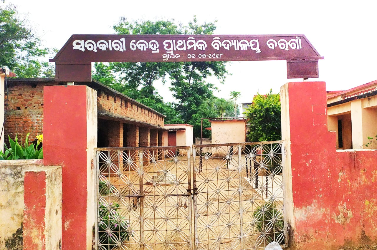 Centre Primary School : The school was established in 1918. It is situated at the centre of the village. About 100 batches successfully passed from this school.